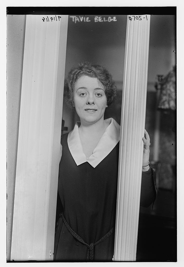 Bain News Service,, publisher. Tavie Belge [between ca. 1915 and ca. 1920] 1 negative : glass ; 5 x 7 in. or smaller. Notes: Title from unverified data provided by the Bain News Service on the negatives or caption cards. Forms part of: George Grantham Bain Collection (Library of Congress). Format: Glass negatives. Repository: Library of Congress, Prints and Photographs Division, Washington, D.C. 20540 USA, General information about the Bain Collection is available at Higher resolution image is available (Persistent URL): Call Number: LC-B2- 4705-1